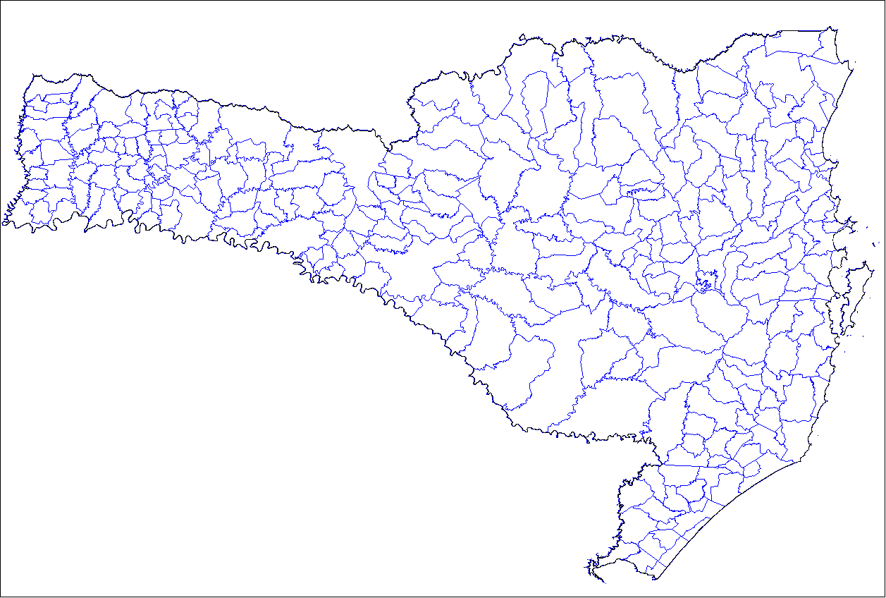 Map of the municipalities of the state of Santa Catarina, Brazil. Created by Rarelibra 13:34, 25 August 2006 (UTC) for public domain use. Created using MapInfo Professional v8.5 and various mapping resources.